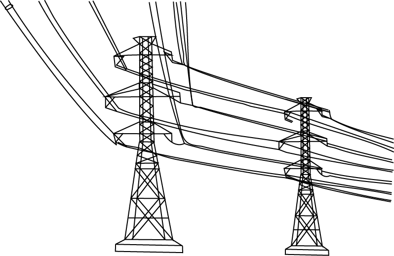 Bangladesh Power Grid Transmission Line, diagram